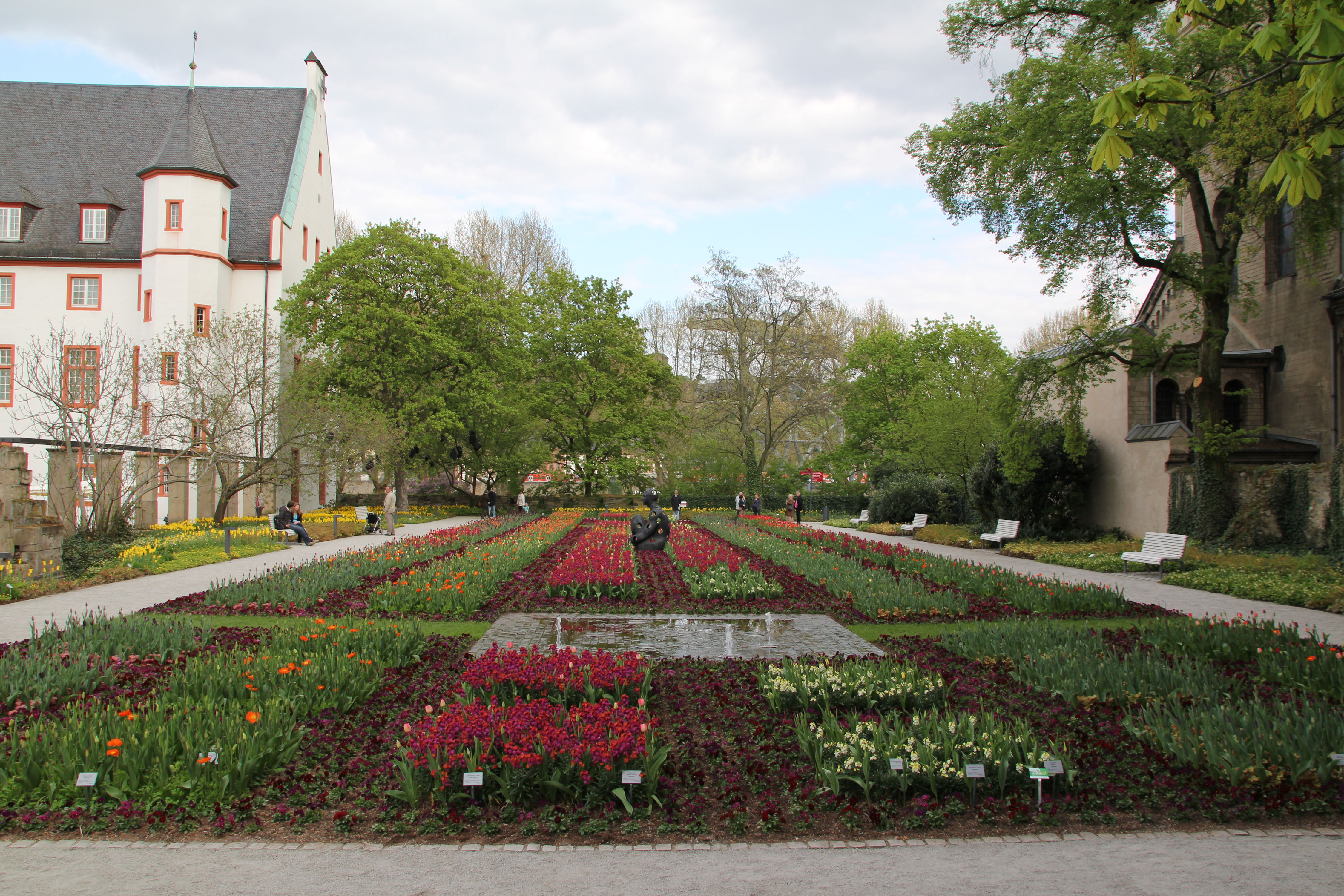 Federal Horticultural Show 2011 in Koblenz - Blumenhof at Deutsches Eck